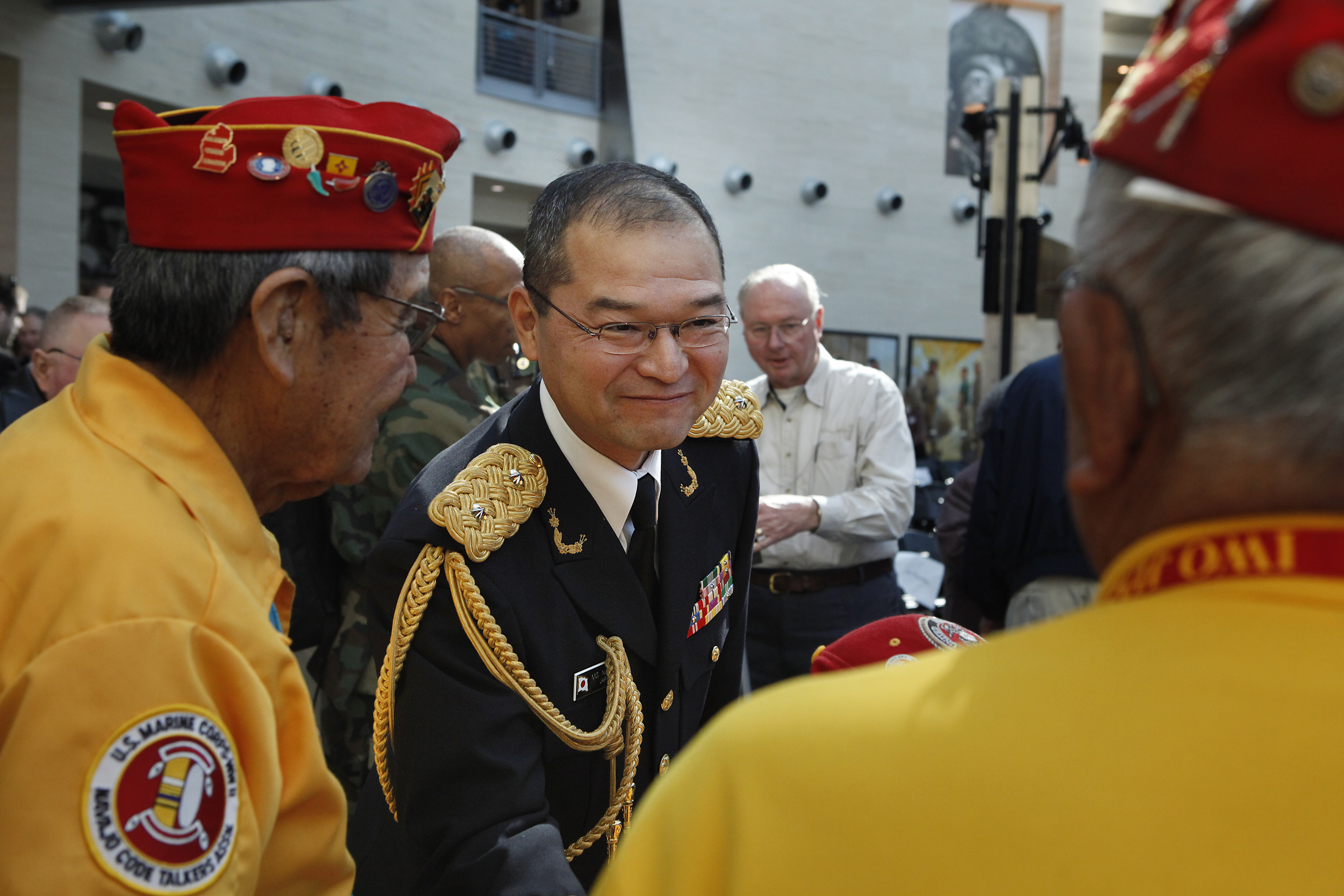 Maj. Gen. Nodomi, defense attache from Japan, greets a group of Navajo code talkers at a ceremony commemorating the 65th anniversary of the Battle of Iwo Jima at the National Museum of the Marine Corps in Triangle, Va., Feb. 19, 2010. In February 1945, the United States launched its first assault against the Japanese at Iwo Jima, resulting in some of the fiercest fighting of the war.